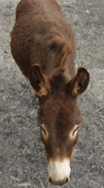 Example of High quality (Q100) JPEG compression. Photo by David Crawshaw.